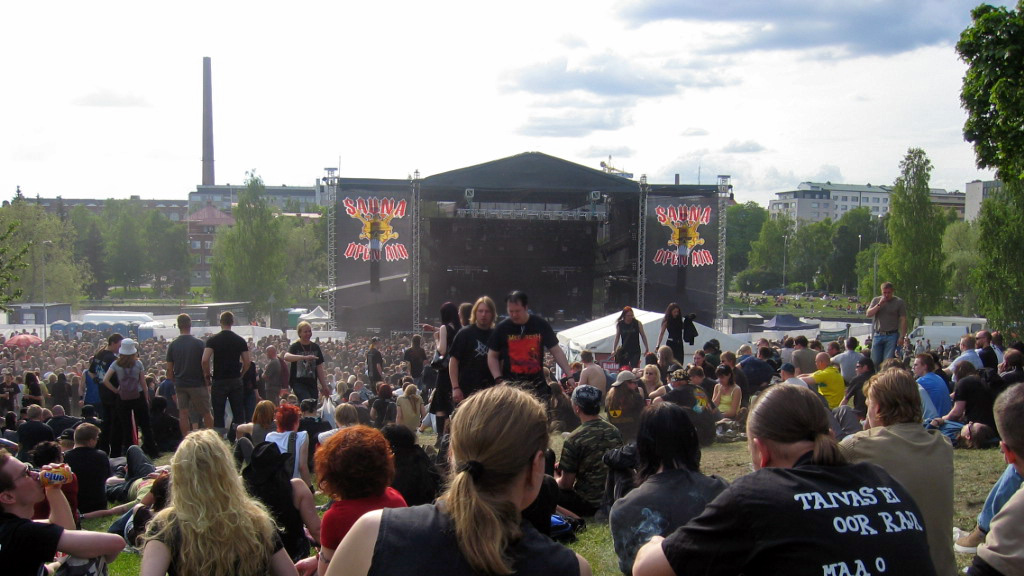 Sauna Open Air Metal Festival 2005. Picture taken from the hill opposite the main stage, where a small secondary stage existed for smaller bands.